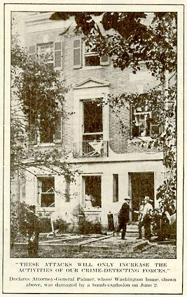 The house of Attorney General A. Mitchell Palmer after being bombed by Galleanist Carlo Valdinoci.